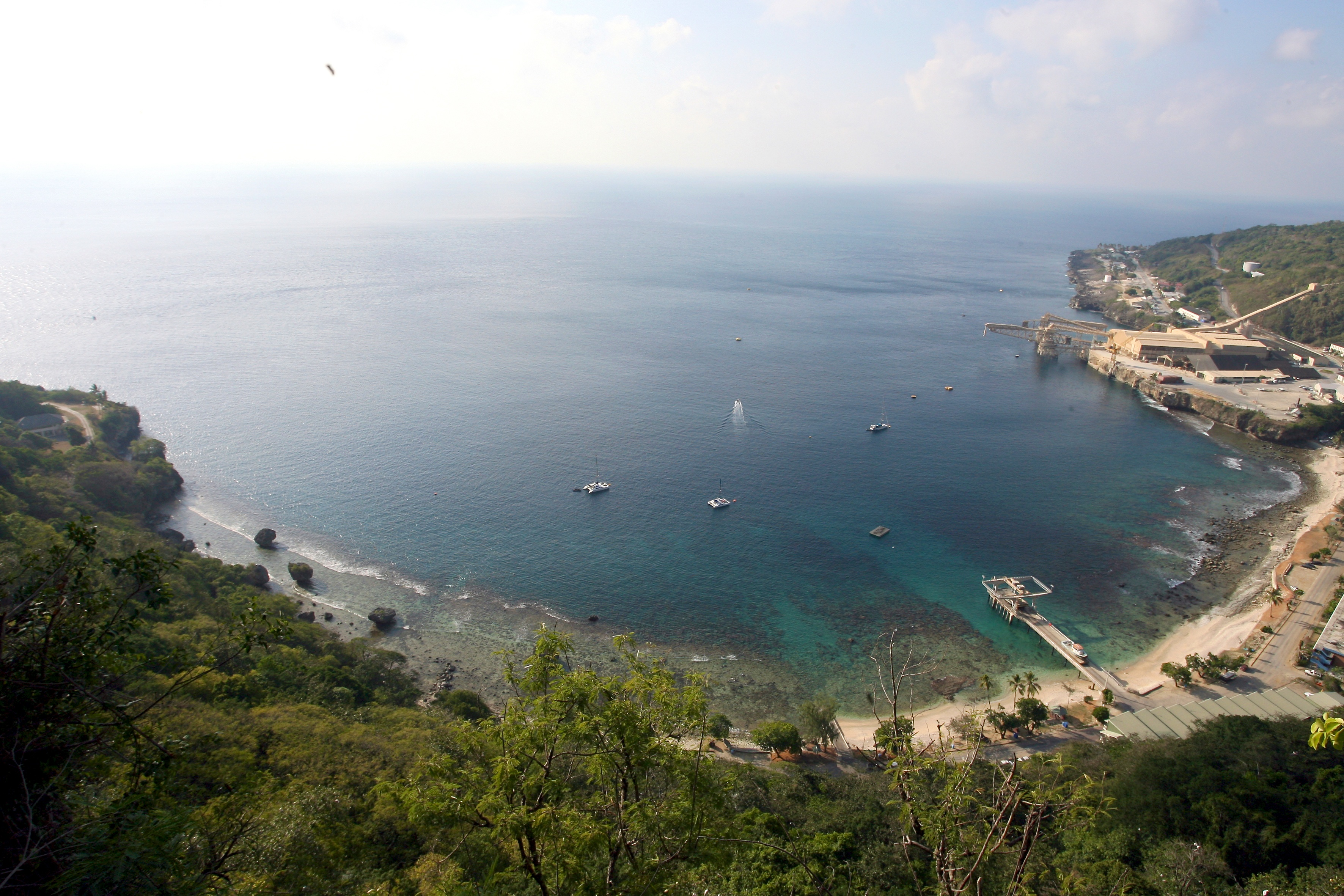 Christmas Island Immigration Detention Centre